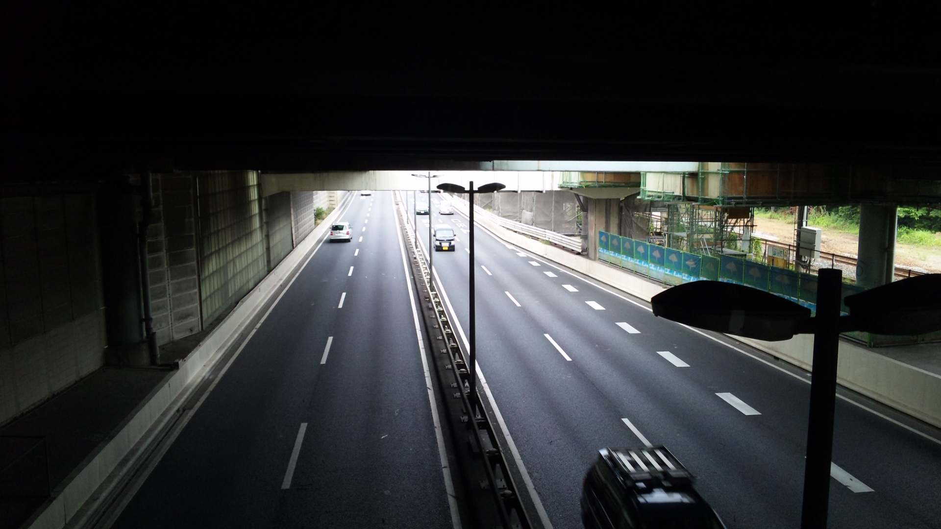 yokohane